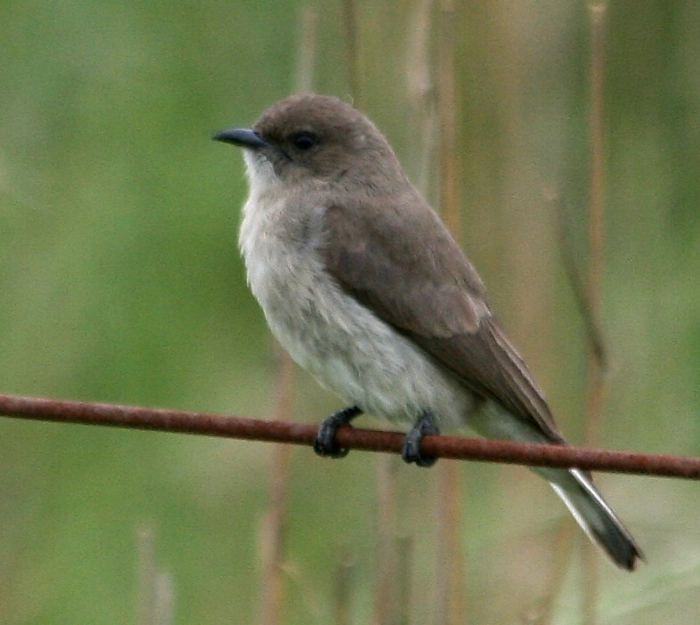 Location: Near Mooi River, KwaZulu-Natal, South Africa. For more information on this species